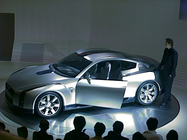 NISSAN GT-R CONCEPT at Tokyo Motor Show 2001